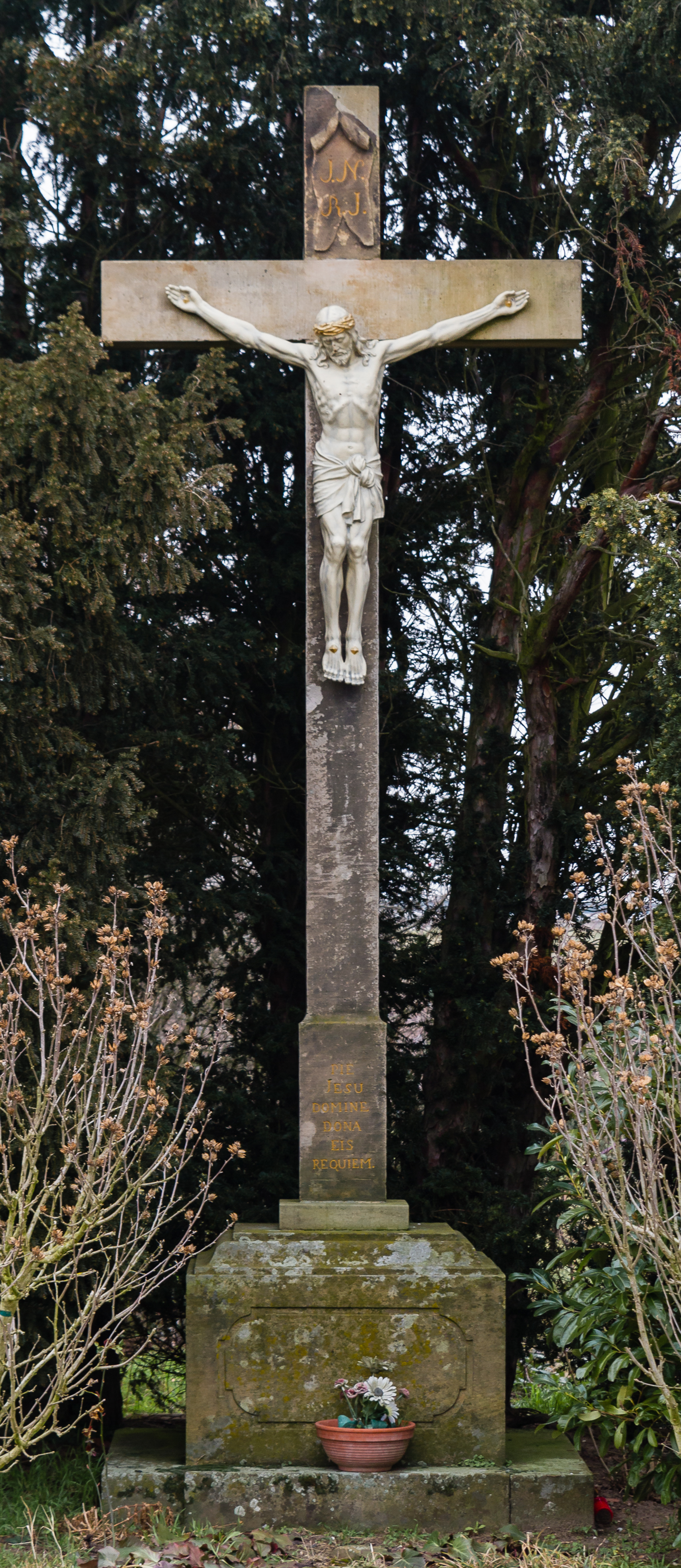 Designation: So-called White Cross (inscription) Location: Approximately 350 m to the northeast outside the settlement on the Martinsweg to Niederkirchen (L 527). Parcel of land: Klostergarten Place: Deidesheim, District Bad Dürkheim, Rhineland-Palatinate Construction time: Mid of 18th century Description: wayside cross, sandstone